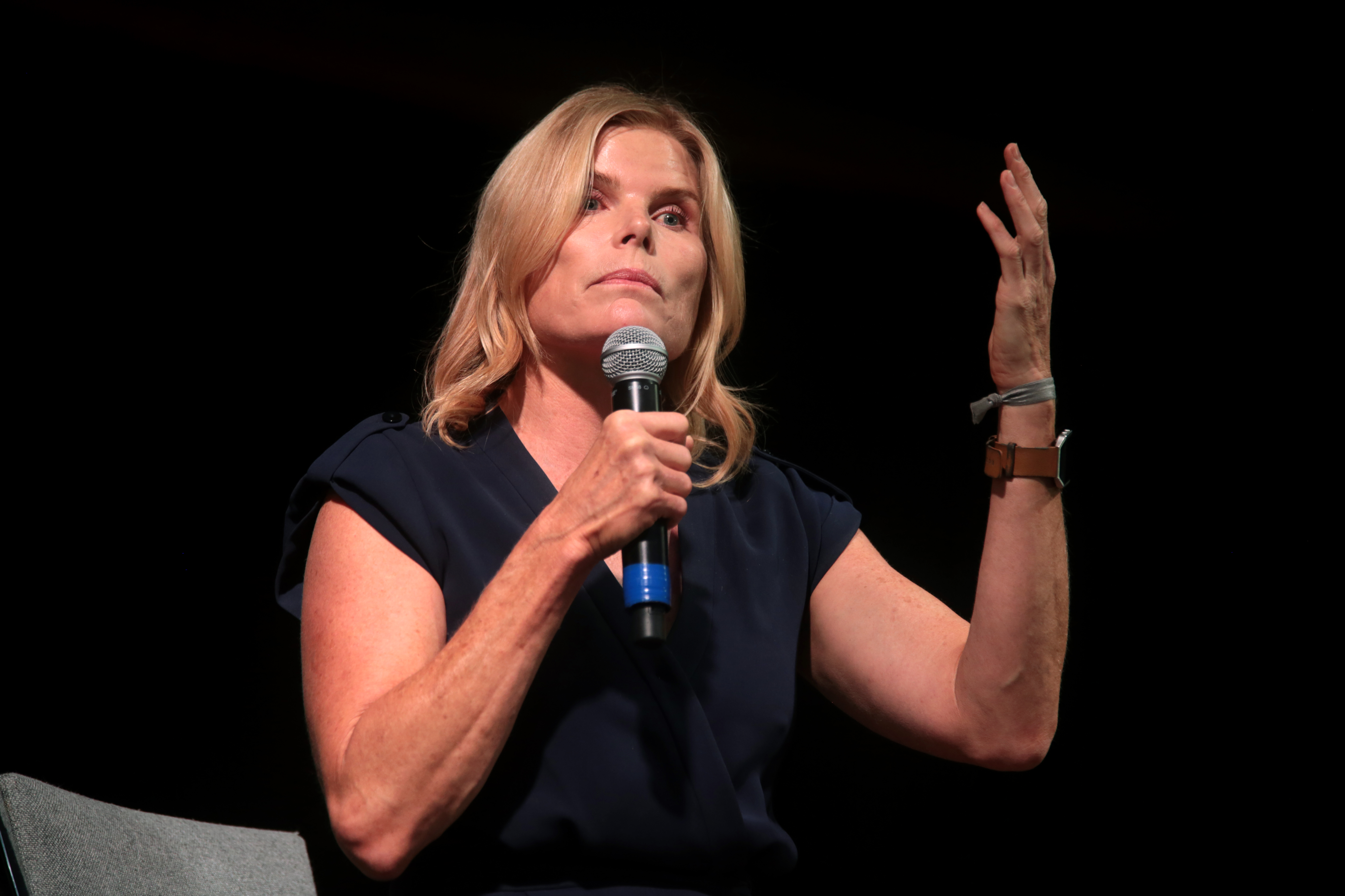 Mariel Hemingway speaking at an event in Phoenix, Arizona